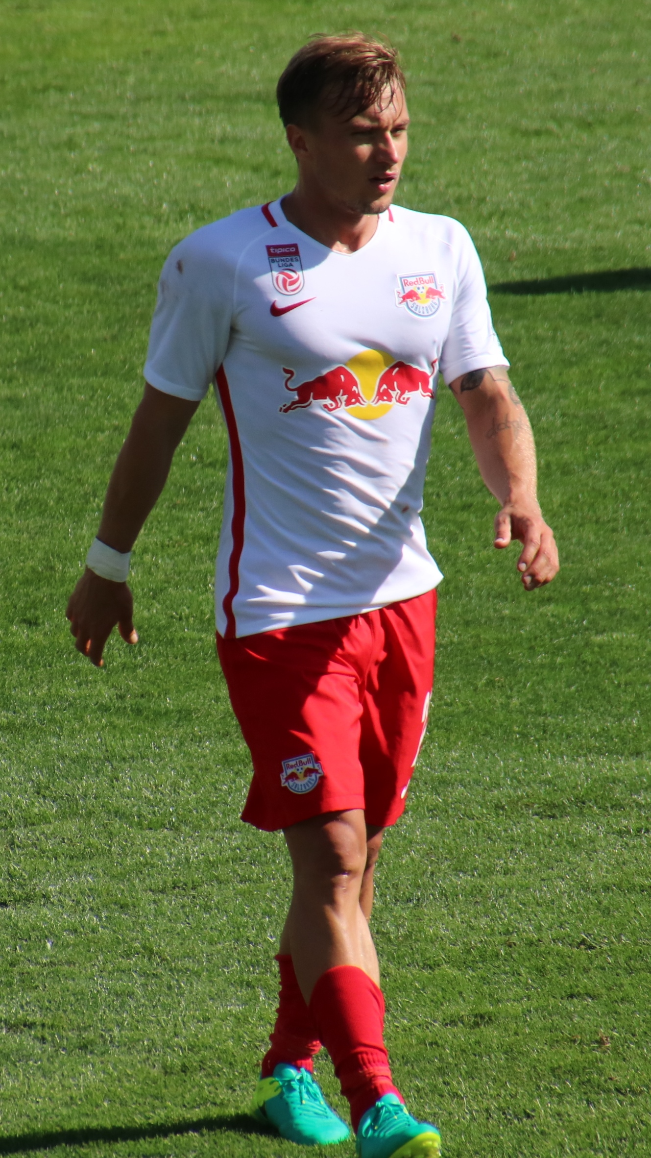 Austrian Bundesliga league match 4th round